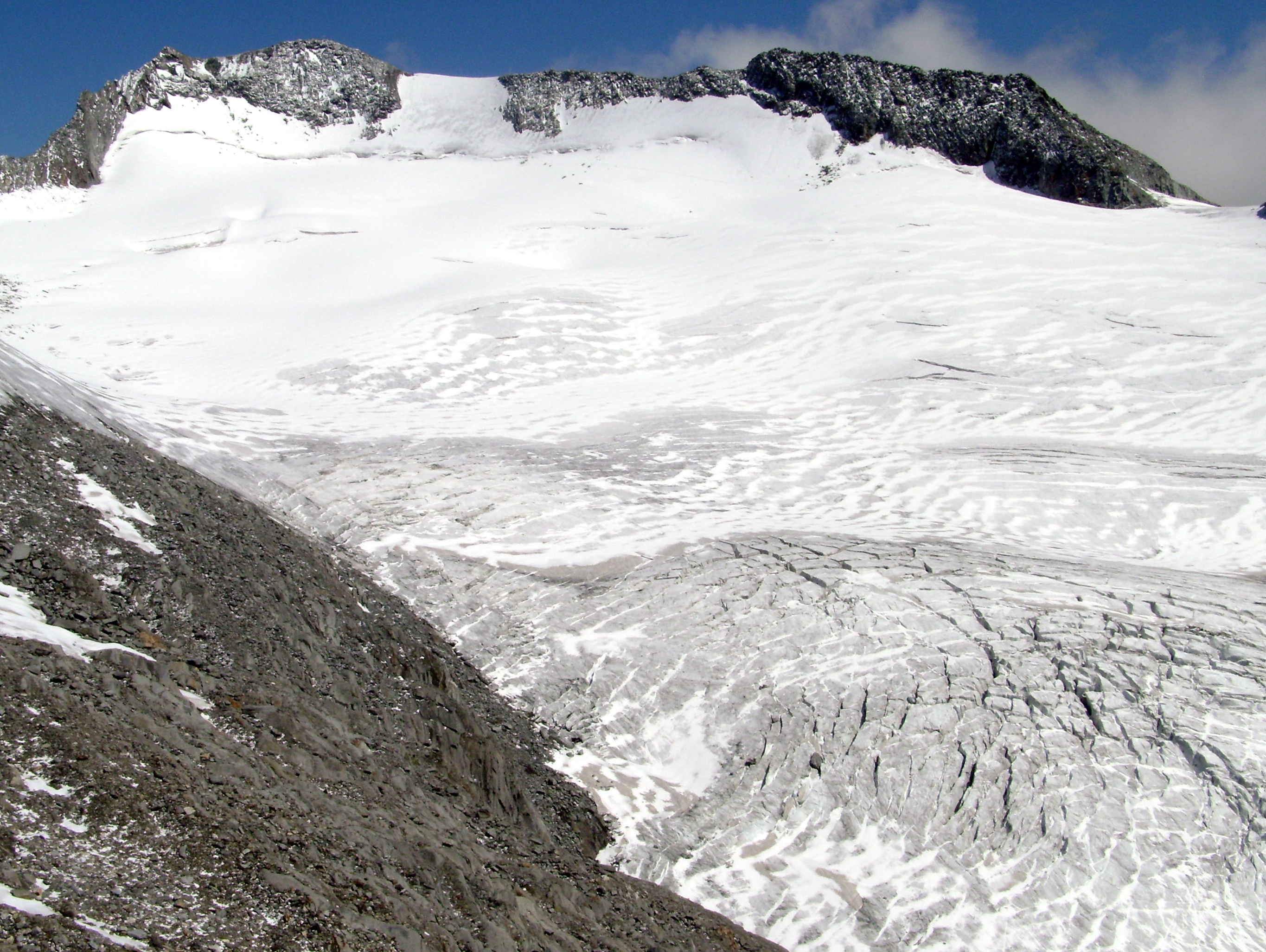 The mountain Hoher Weißzint (Italy/Austria) and the glacier Gliderferner from west